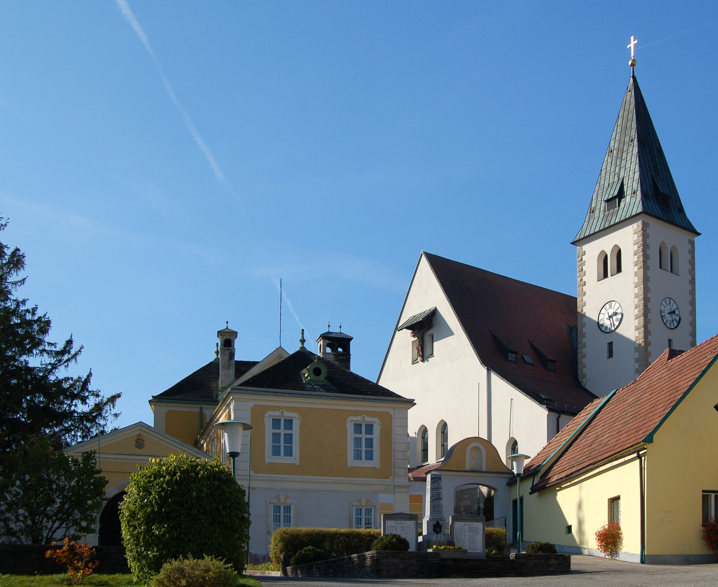 Presbyterium and parish church of Grillenberg, municipality Hernstein, Lower Austria